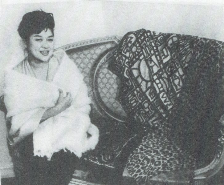 Yoshiko Ishii